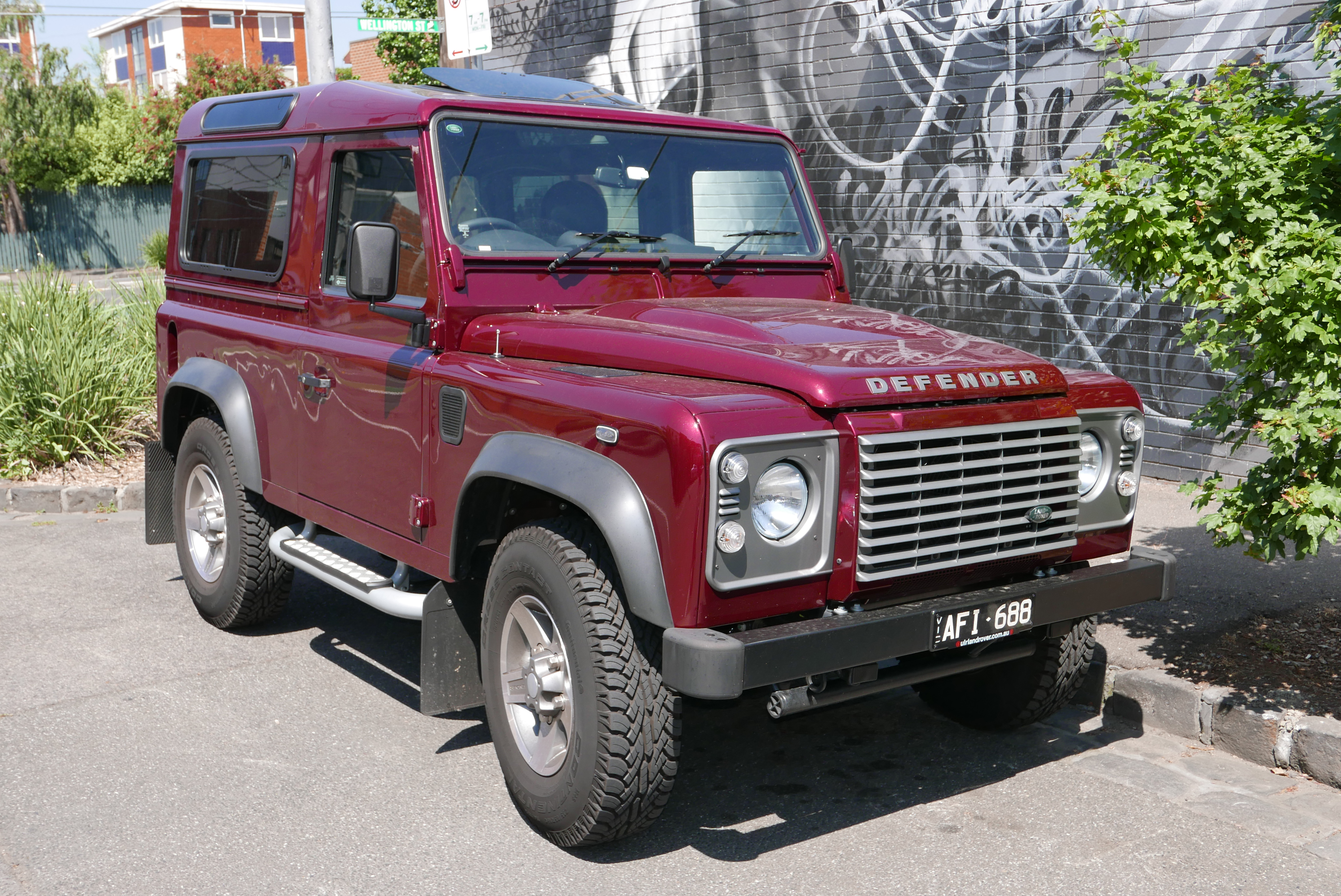 2015 Land Rover Defender (L316 MY15) 90 3-door wagon. Photographed in Collingwood, Victoria, Australia. Vehicle registration enquiry results Jurisdiction Victoria Registration AFI688 Chassis code SALLDWBR7FA474946 Engine code 150501091656DT224 Compliance date 2015-07 Year of manufacture 2015